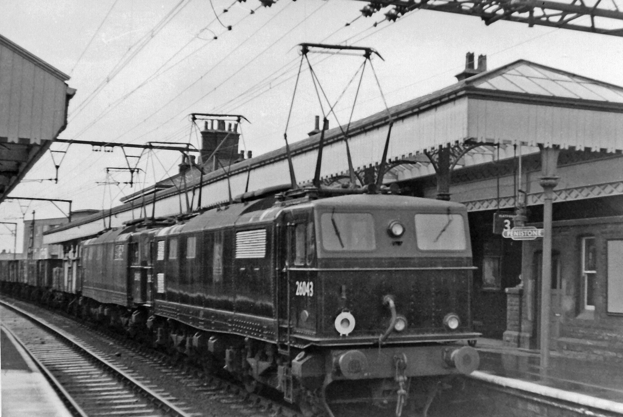 Up empties passing Penistone Station on the electrified Manchester - Sheffield/Wath main line. View NW, towards Woodhead Tunnel and Manchester, just five days before the New Tunnel was formally opened and full electric operation began. However, electrically hauled freight trains had been running Wath Yard - Dunford Bridge since February 1952 with handover to steam at Dunford Bridge; this train was probably one of those, headed by Bo-Bo EM1 Nos. 26043 + 26042.